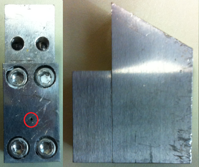 [Left] Profile view of a hollow fiber membrane spinneret. [Right] View of bottom of same hollow fiber membrane spinneret, showing the polymer outlet (outlined in red).